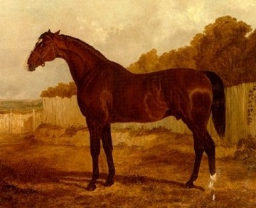 Painting of Blacklock